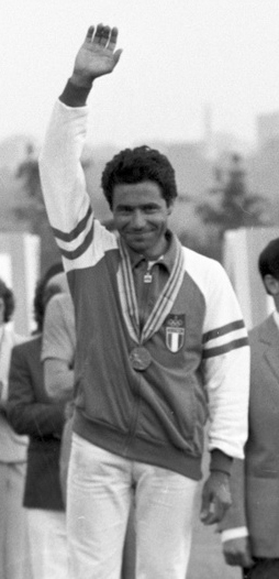 “Giancarlo Ferrari (Italy) on the victory podium”. Giancarlo Ferrari (Italy) on the victory podium. Dinamo archery range in Mytishi. Archery competition. XXII Summer Olympic Games held in Moscow on July 19 - August 3, 1980.